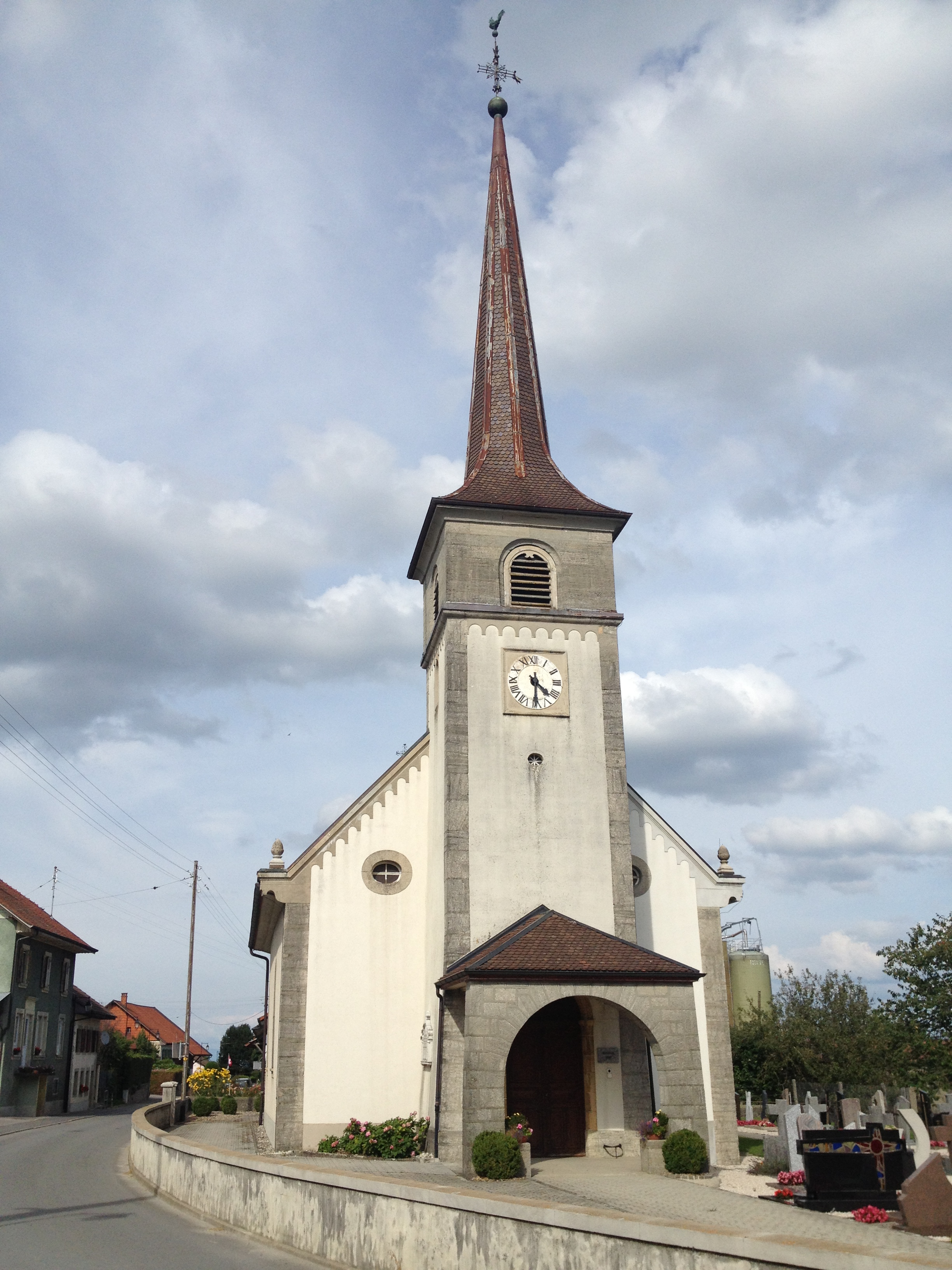 Saint-Vincent church, Vuissens, Switzerland.